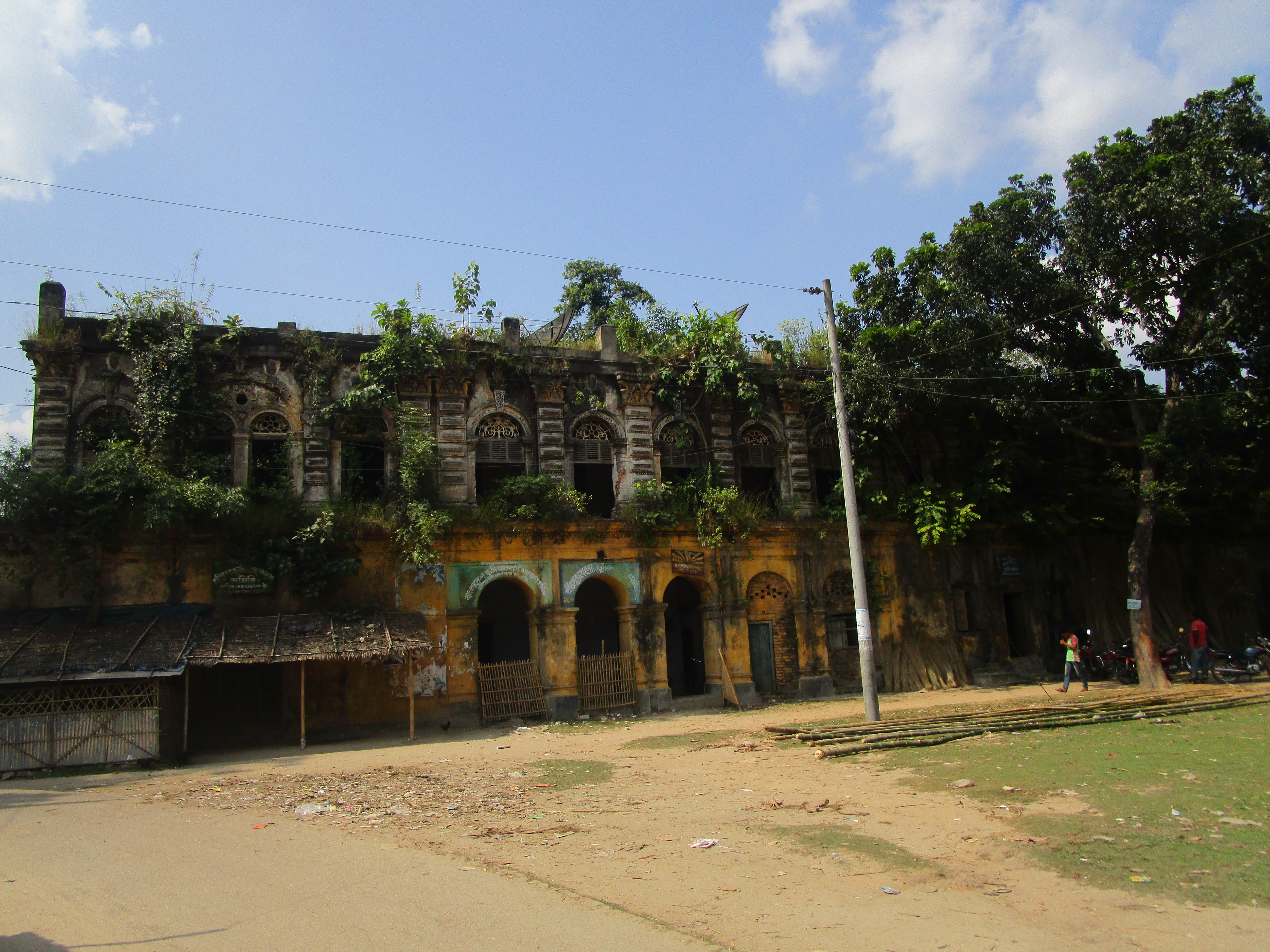 Haripur Rajbari at Haripur Upazila.